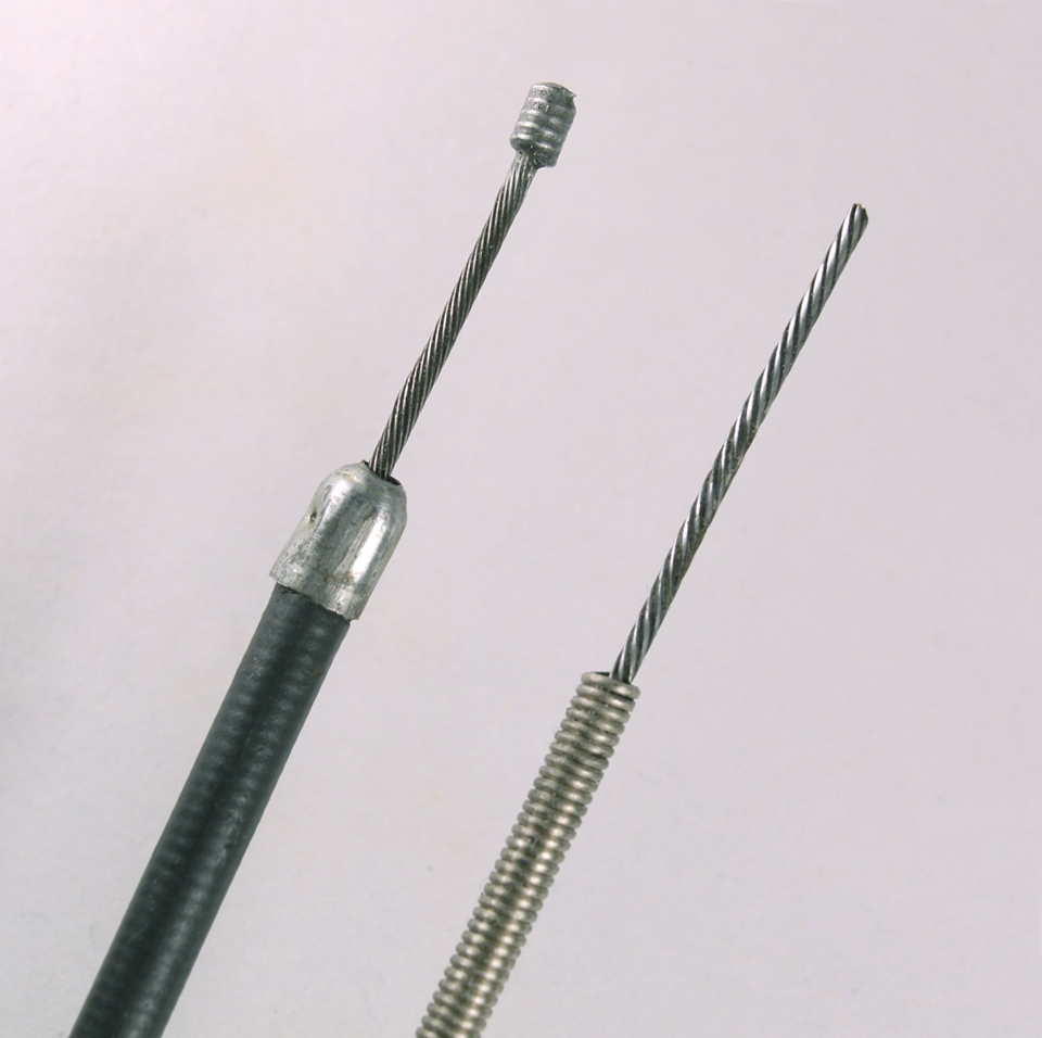 Bowden cable type